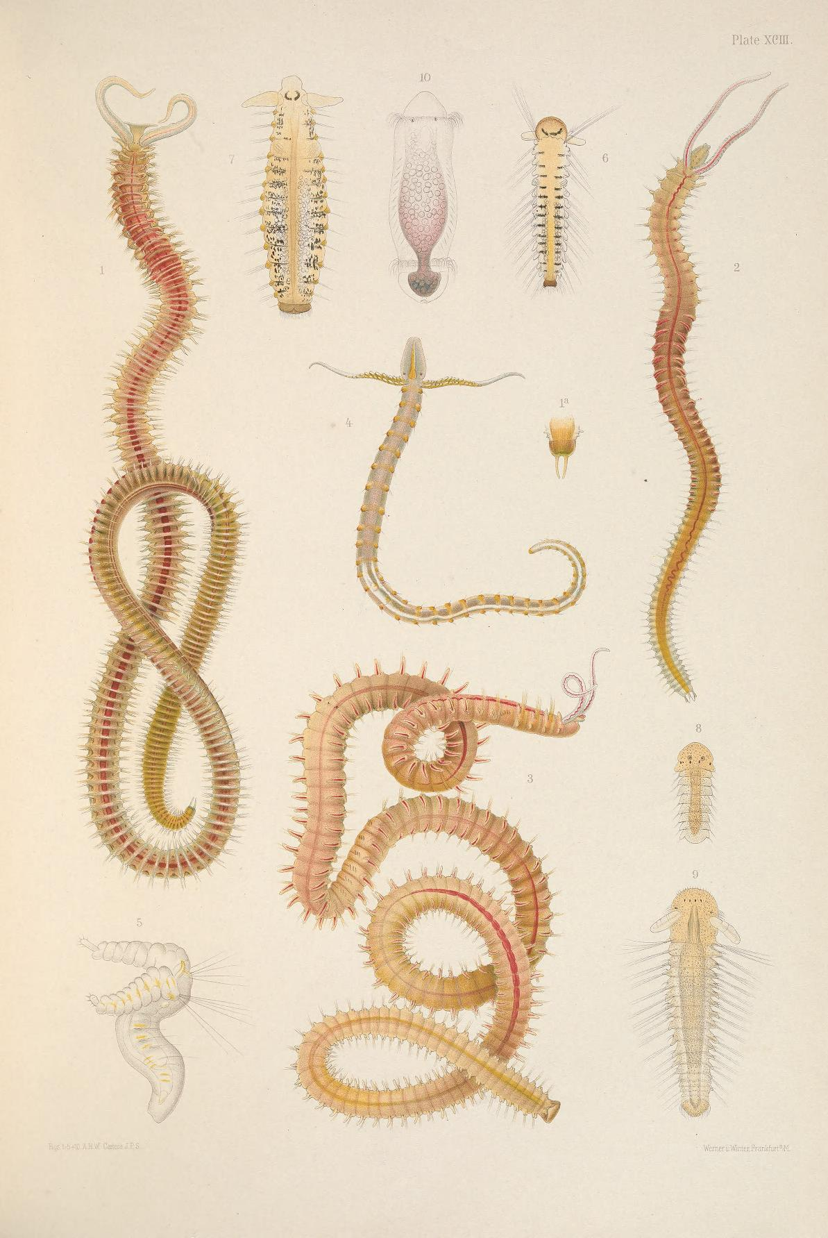 A monograph of the British marine annelids 1915 XCIII Plate text 1 Spiophanes bombyx (Claparède, 1870) Spionidae 2 Pygospio elegans Claparède, 1863 Spionidae 3 Polydora caeca = Dipolydora coeca (Örsted, 1843) Spionidae 4, 5 Magelona papillicornis F. Müller, 1858 Magelonidae 6, 7 Polydora ciliata (Johnston, 1838) Spionidae 8 Spiophanes 9 Capitellidae